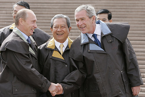 SYDNEY. Official photo session. With Prime Minister of Thailand Surayud Chulanont and U.S. President George W. Bush.